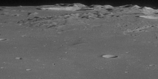 Oblique view of Mons Esam (dark spot near center), on the moon, facing west. Vitruvius is the large crater near central horizon, and Apollo 17 landed in the Taurus-Littrow valley in upper right.